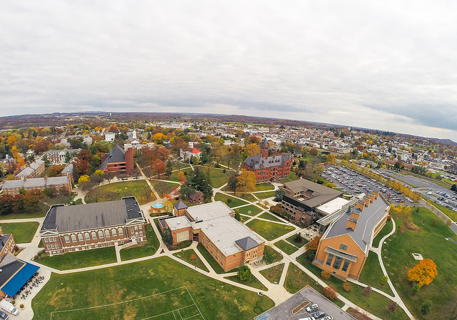 Campus from above